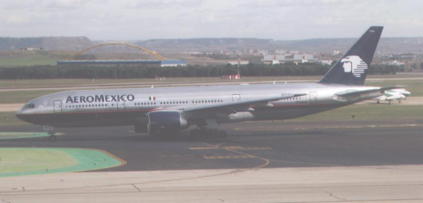 Aeromexico Boeing 777-200 at Madrid Barajas